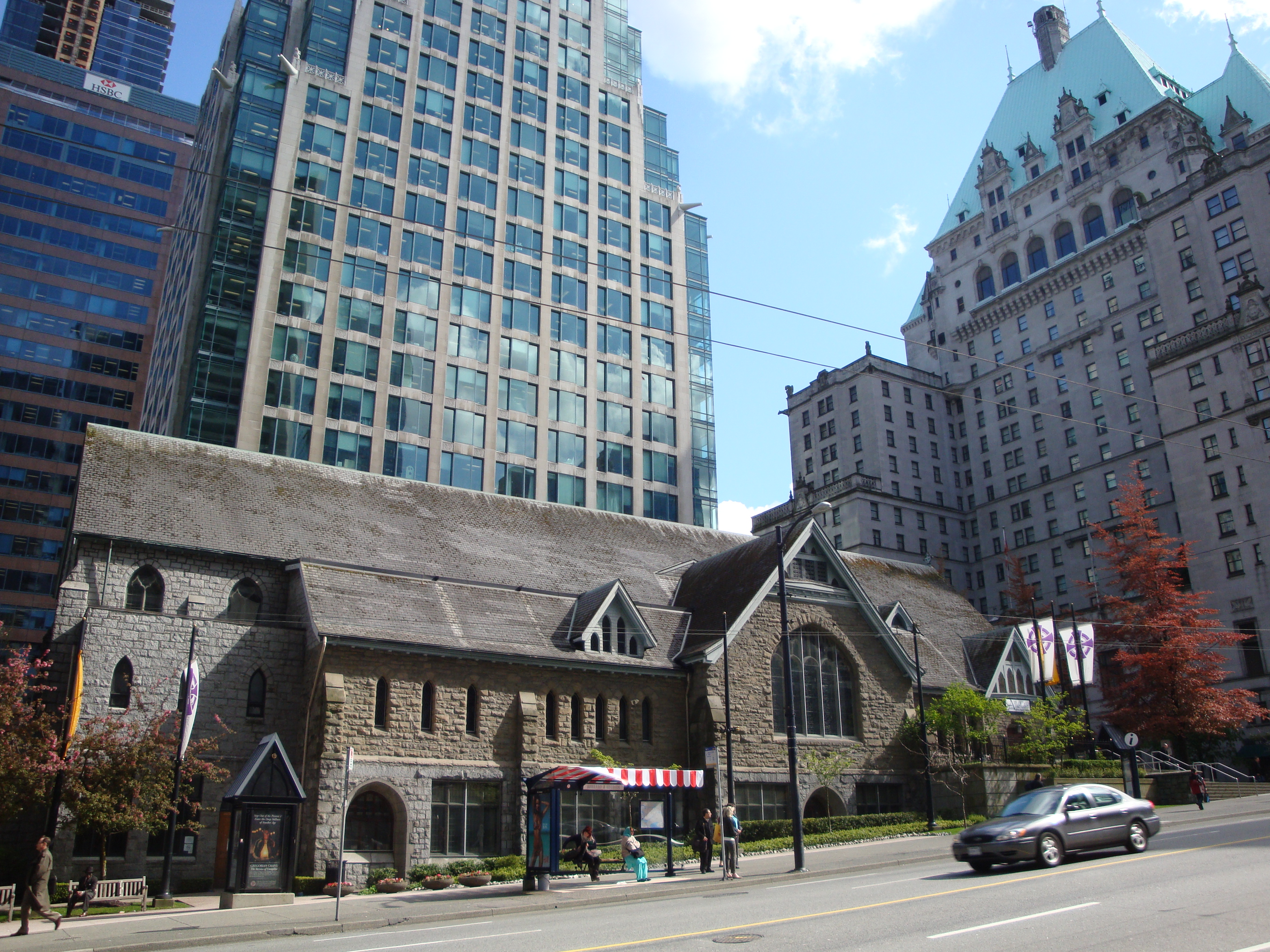 View of Christ Church Cathedral, Vancouver, British Columbia, Canada from Burrard Street facing east. View of the Hotel Vancouver to the south of the cathedral.